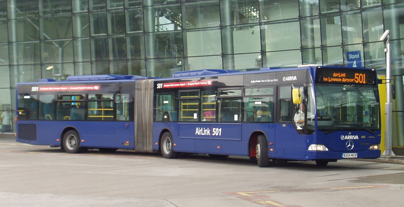 Arriva Merseyside Mercedes-Benz O530G Citaro articulated bus 6005 (BX04 MXB) in Liverpool South Parkway bus station on AirLink service 501 to Liverpool John Lennon Airport, for which it carries branding.